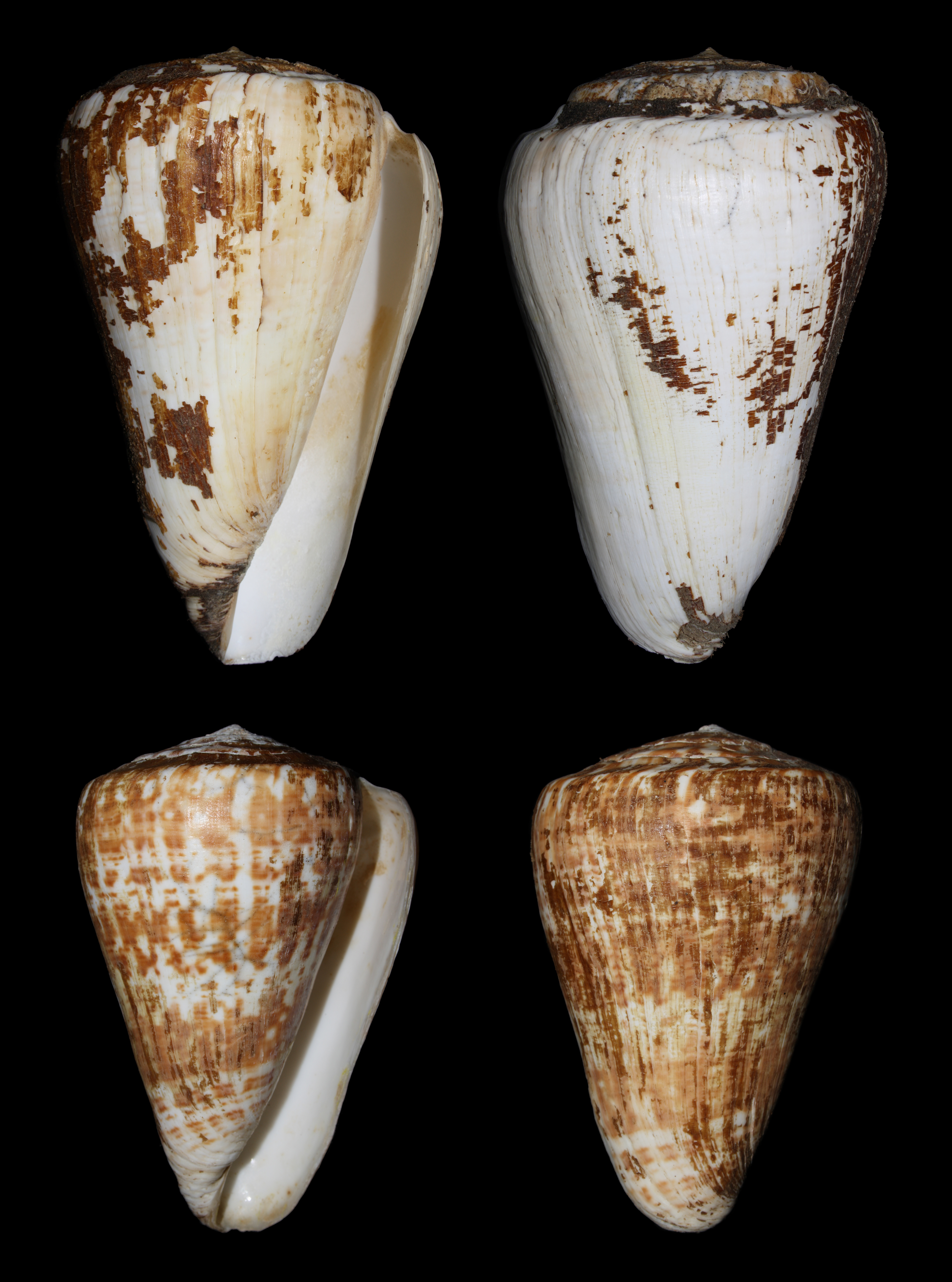 Conus pulcher, Lightfoot 1786. Albino shell 155 mm, regular shell 128 mm. With periostracum. Banjul, The Gambia, 2004.